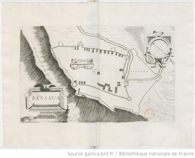 Vincenzo Coronelli, Pasava castle inn Greece